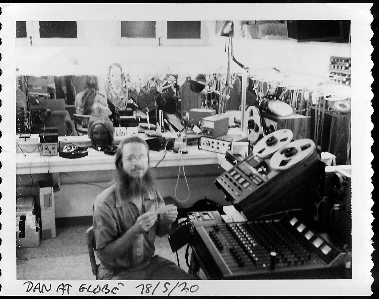 Sound designer Dan Dugan working in an improvised production studio in a dressing room at the Old Globe Theatre in San Diego, CA USA, 1978